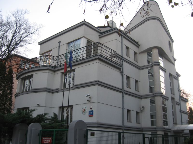 Former Portuguese Embassy. Francuska Str., Warsaw, Poland.